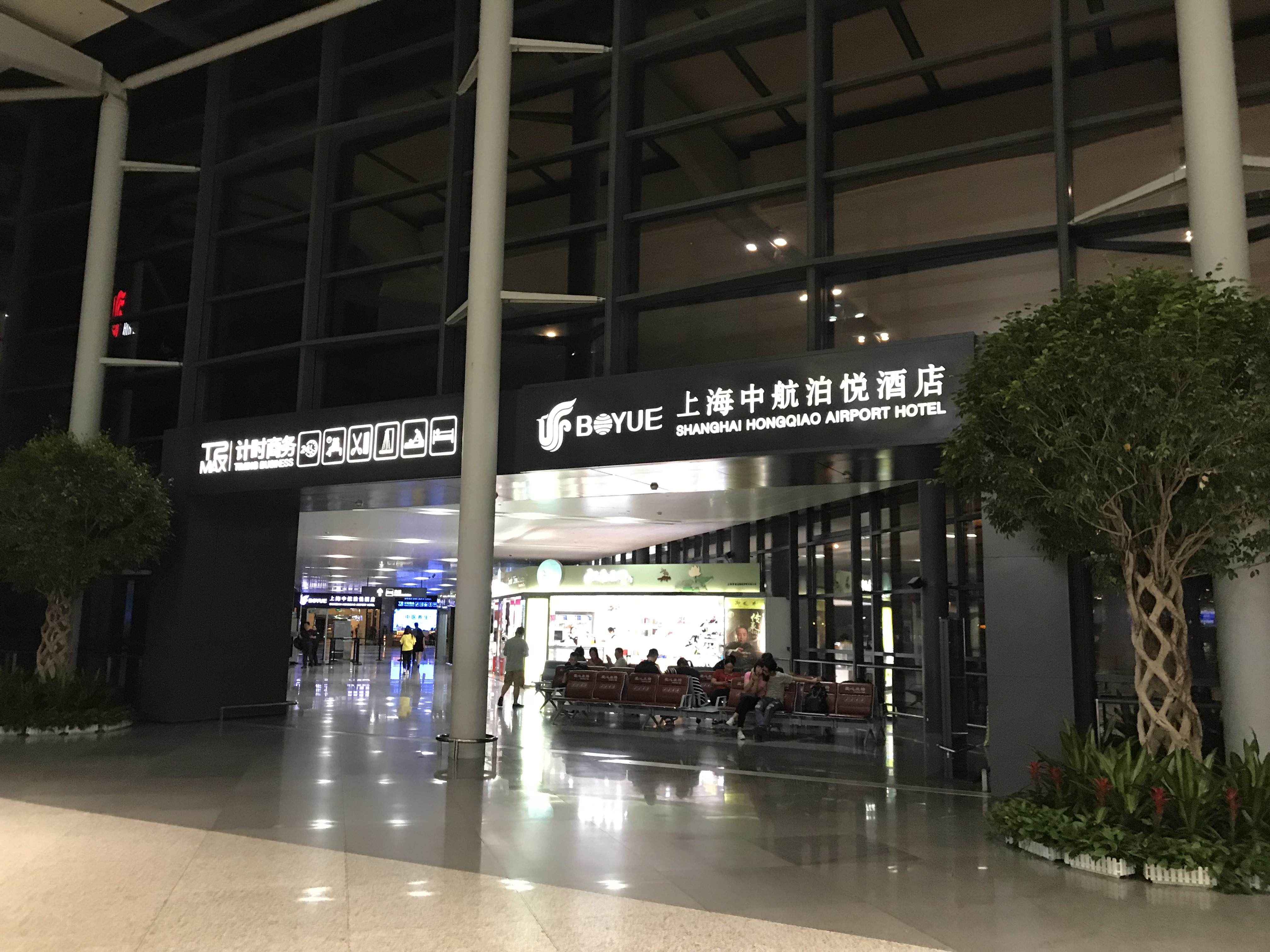 201806 Entrance to Shanghai Hongqiao Airport Hotel